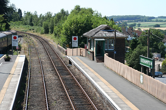 Okehampton Railway Station